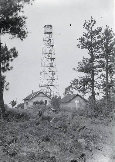 Dry Mountain Fire Lookout in the Ochoco National circa 1930. This is a classic example of an Aermotor type tower.